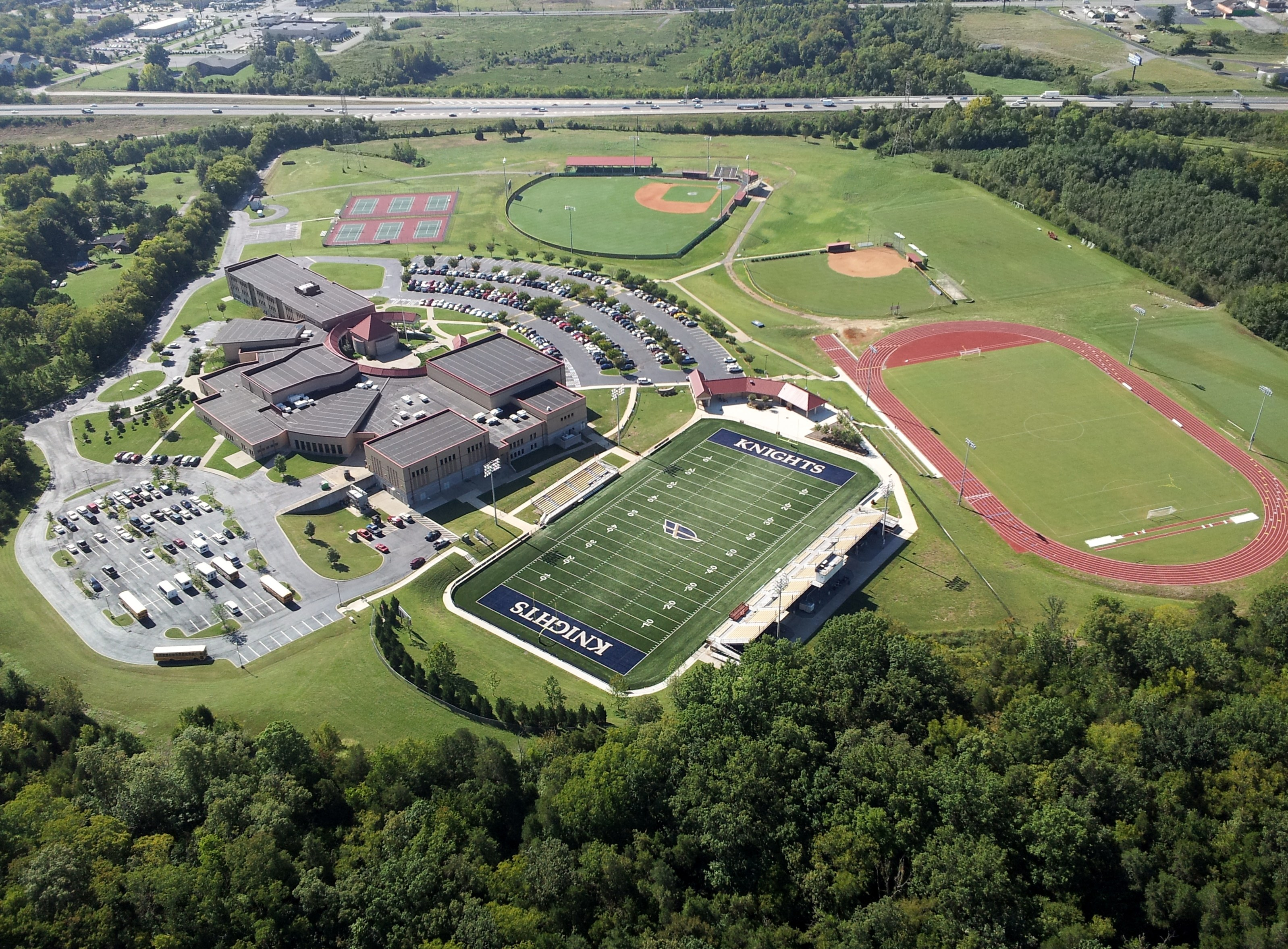 This is the campus of Pope John Paul II in Hendersonville, TN